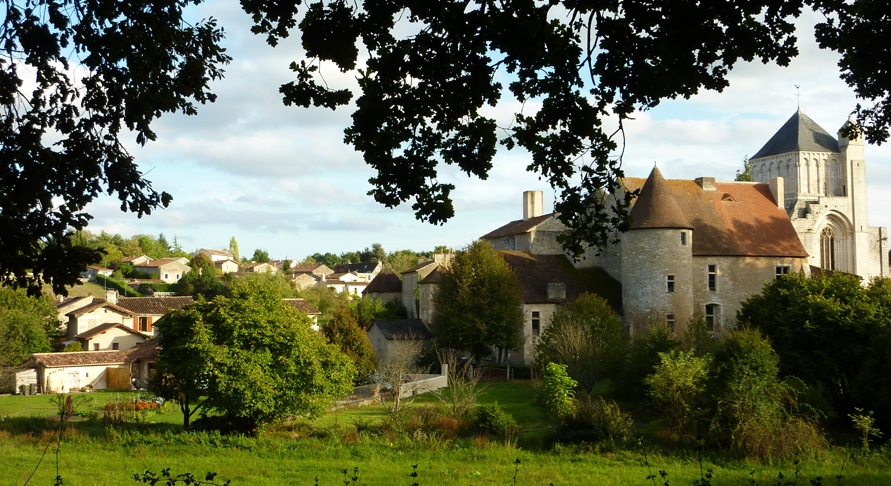 Village and Abbey of Nouaillé-Maupertuis seen from the Garenne woods